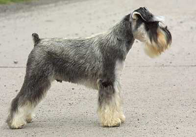 [:en:Miniature Schnauzer